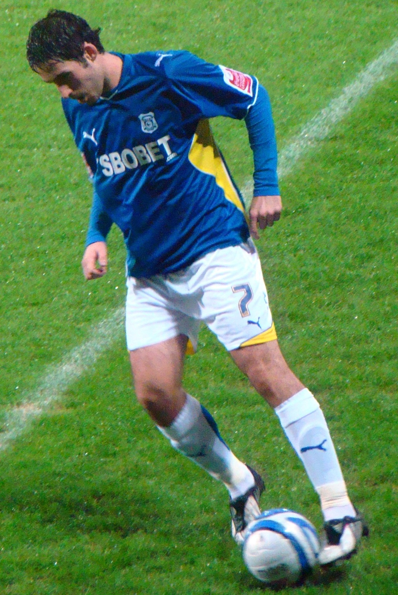 Peter Whittingham of Cardiff City F.C. 05/12/09 Cardiff V Preston, Cardiff City Stadium, Cardiff, Wales This file has been extracted from another file: Peter Whittingham at corner.jpg